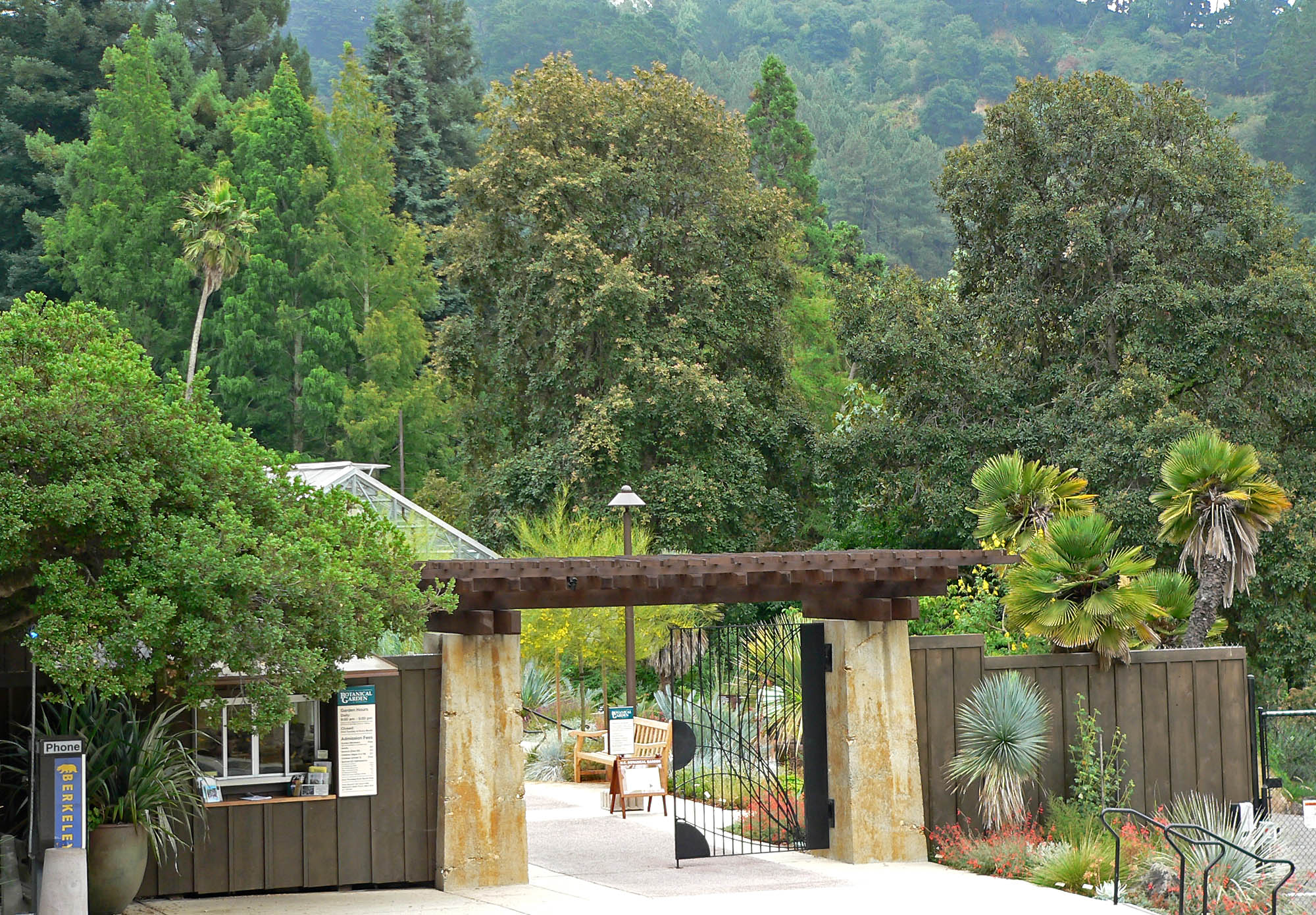 Photo of front gate of the University of California Botanical Garden